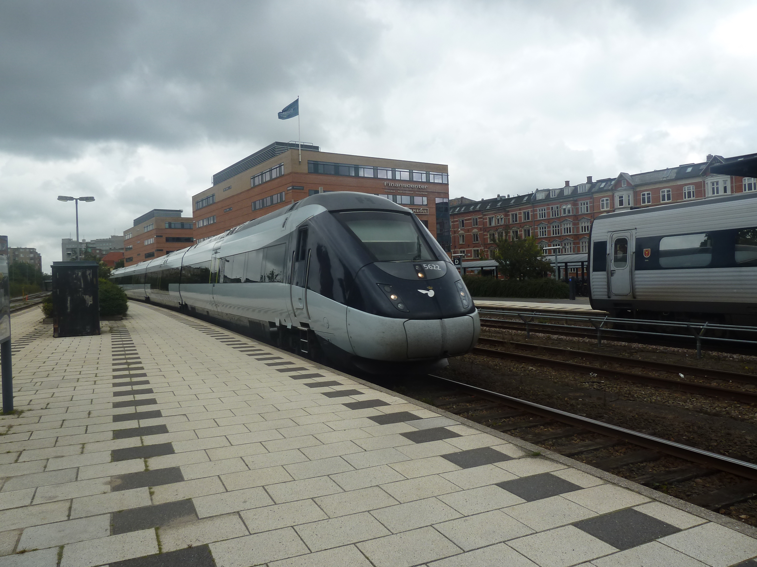 Diesel multiple unit IC4 22 in Aalborg in Denmark.